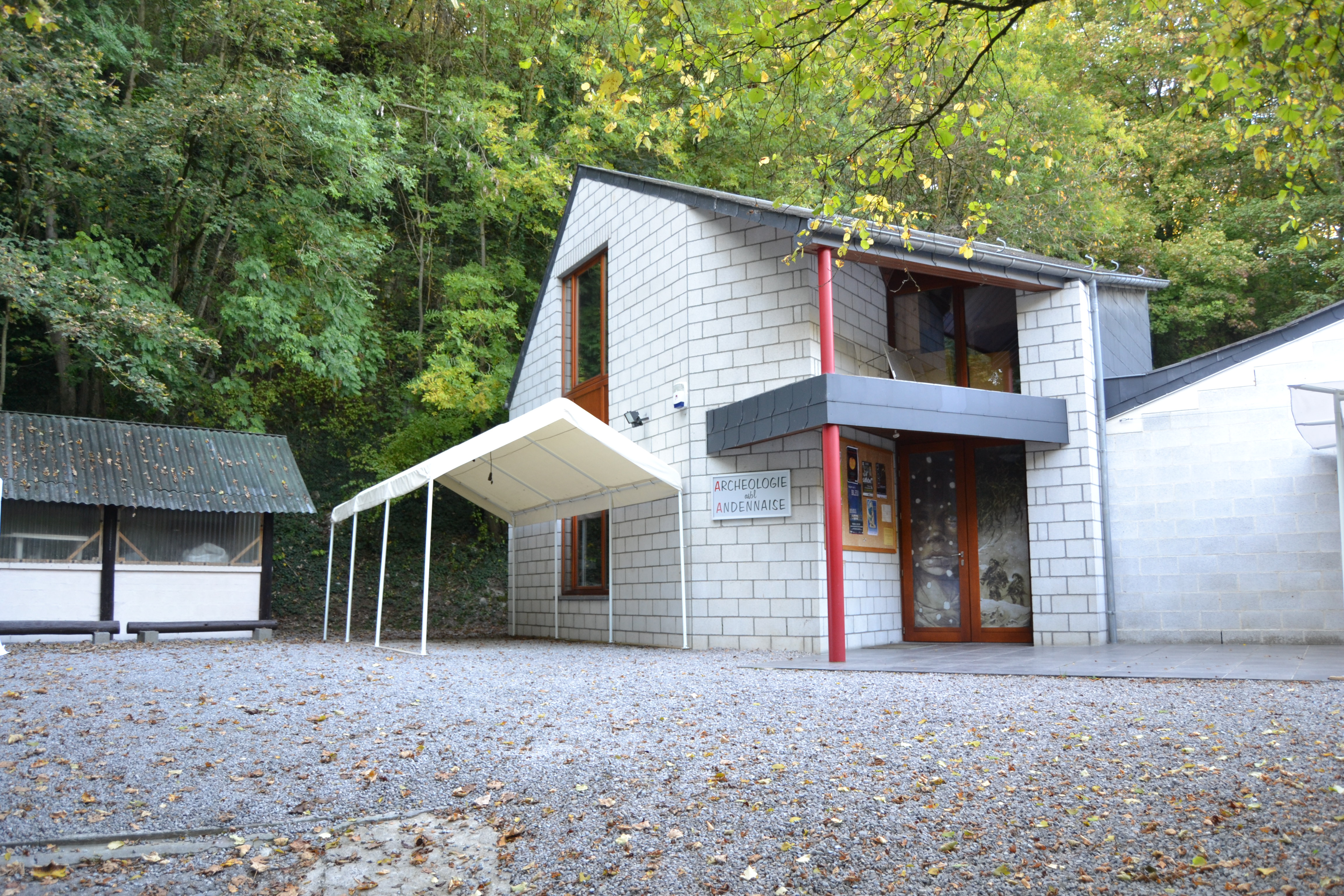 Scladina Center, where were found neandertalian remains in Sclayn, Andenne, Province of Namur, Belgium